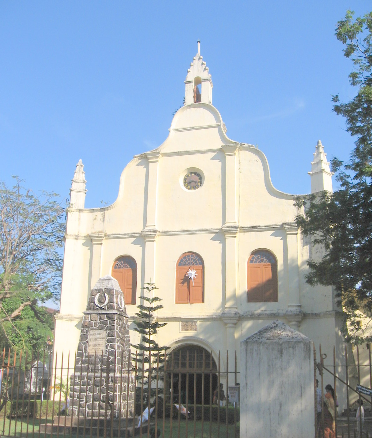 St. Francis Church at Kochi, Kerala - oldest European church in India